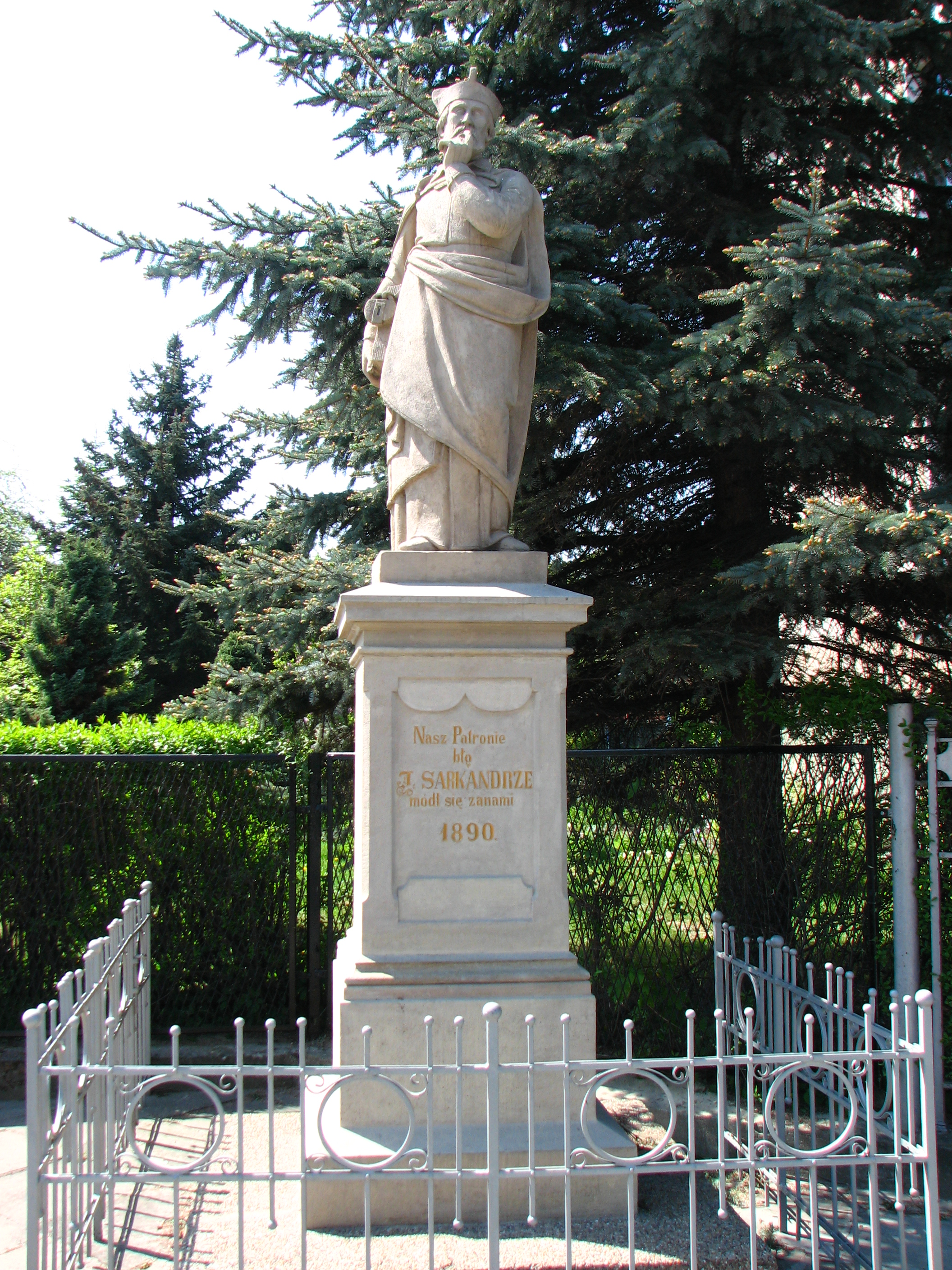 St John Sarkander statue located on Mickiewicza Street in Skoczow, endowed by Sperling Family in 1890